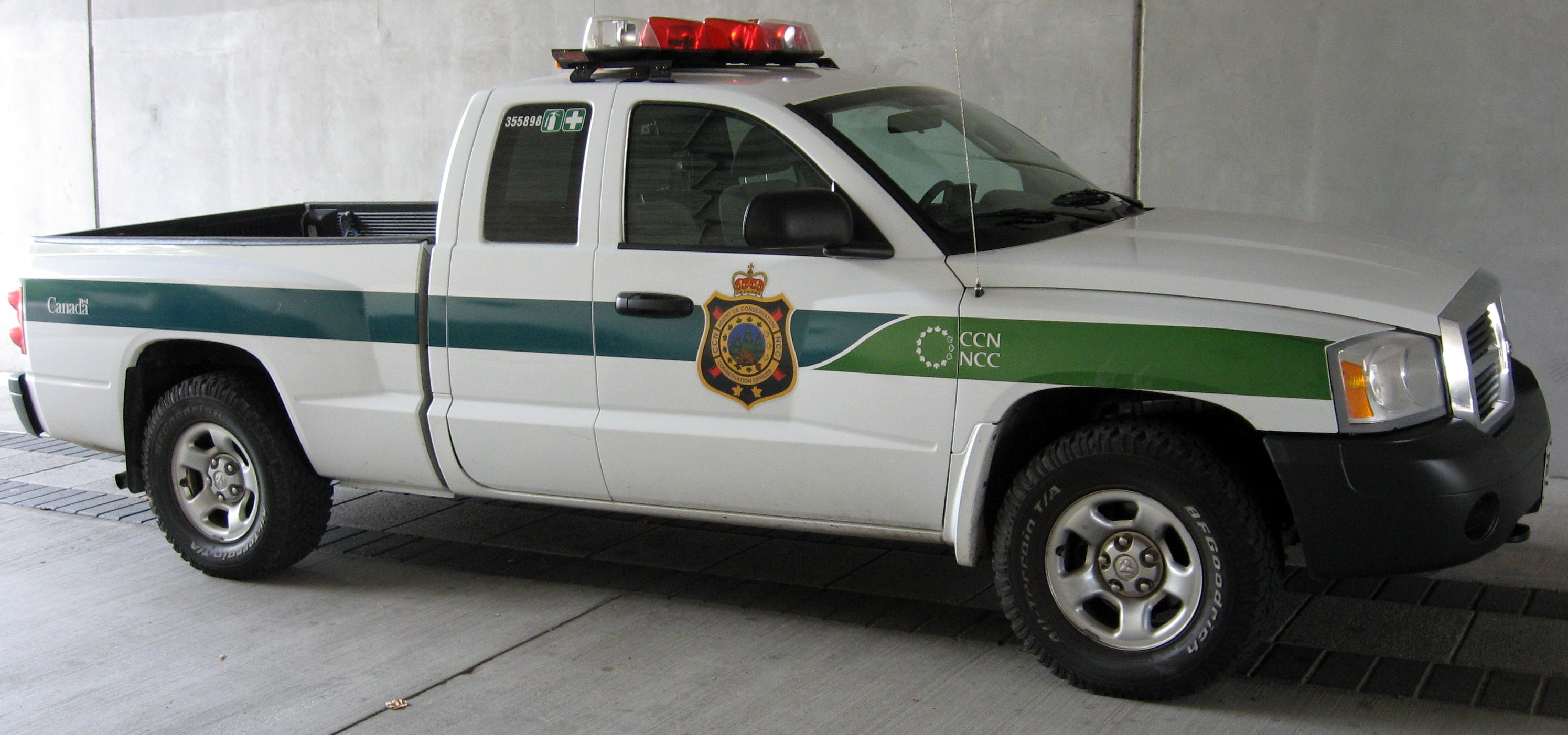 A National Capital Commission truck for its Conservation Officers